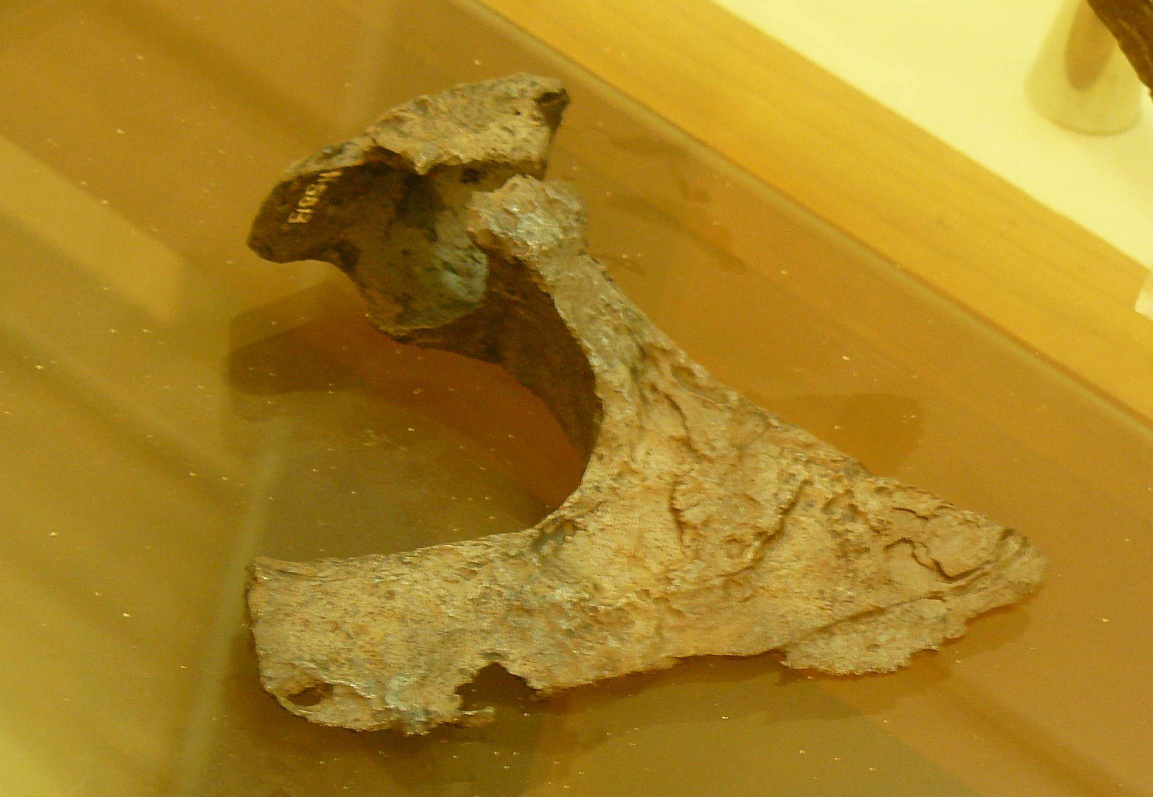 Avar-Slavic battle axe, 7th to 8th century, unknown provenance, Split archaeological museum